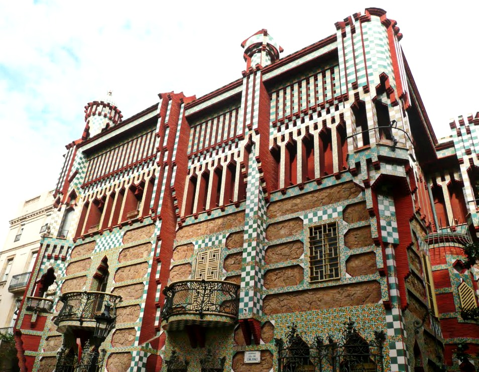 Vicens House